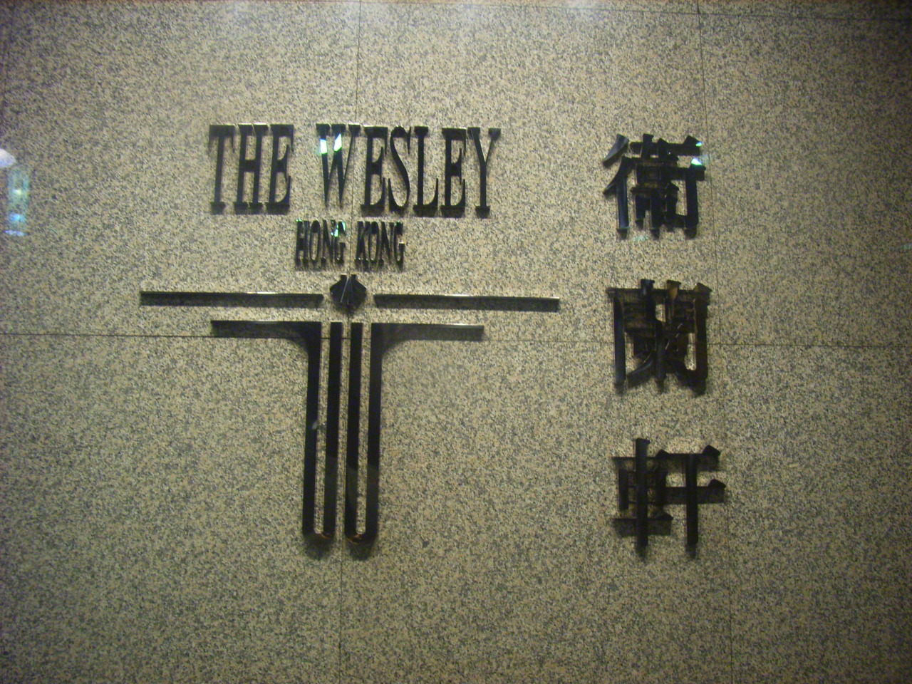 灣仔zh:衛蘭軒